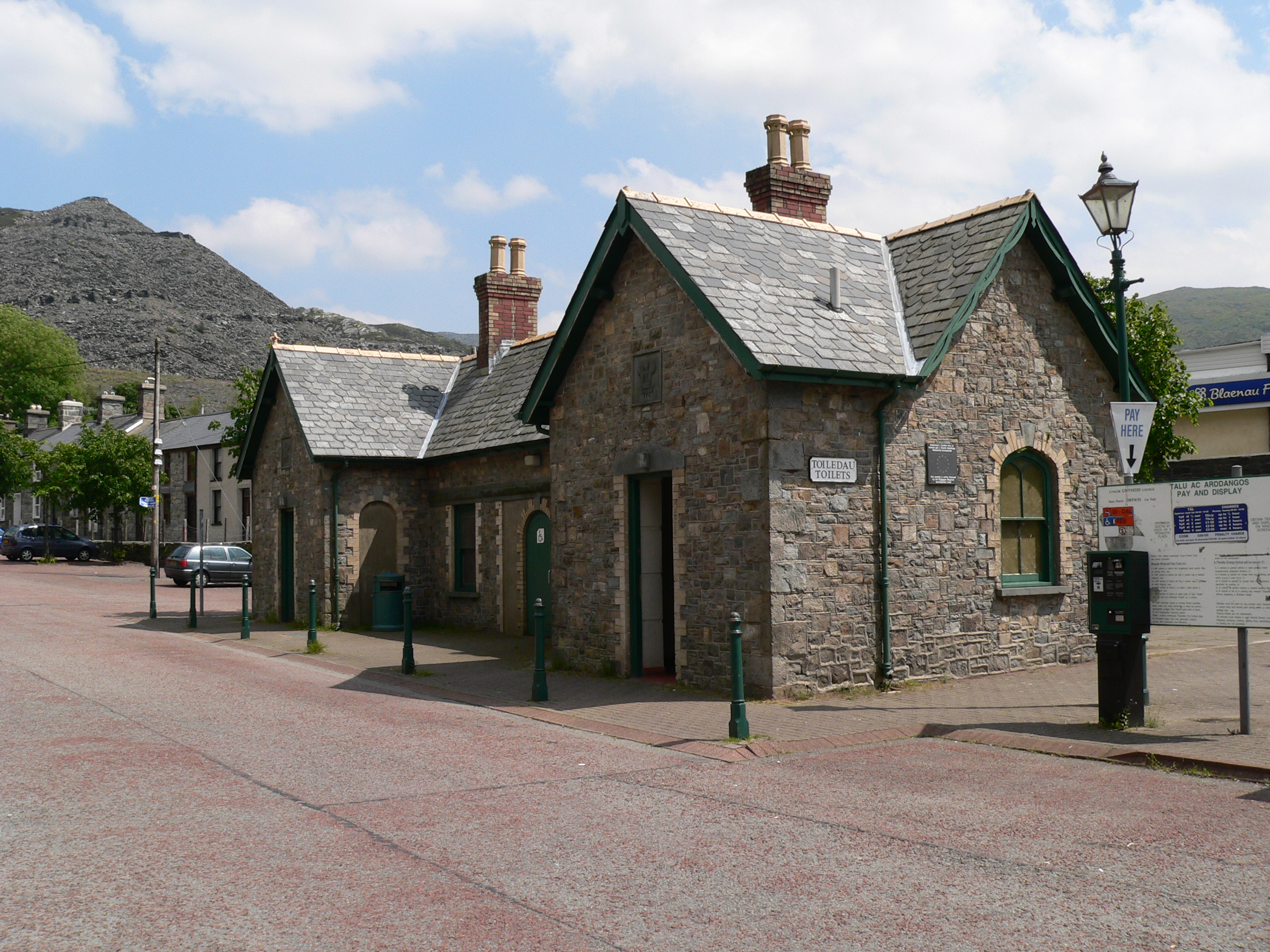 The old station buildings for Ffestiniog Railway Duffws station at Blaenau Ffestiniog - they are now used as public toilets.